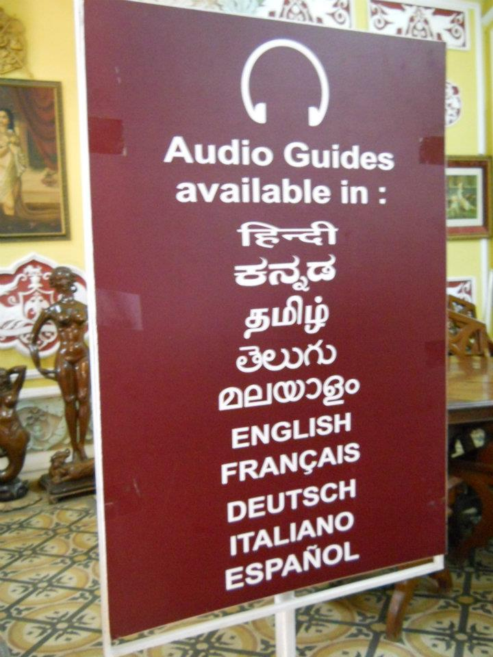 South Indian language guides to the Bengaluru Palace in Bangalore (from top to bottom): Hindi, Kannada, Tamil, Telugu, and Malayalam. English and other European languages are also provided for tourists.